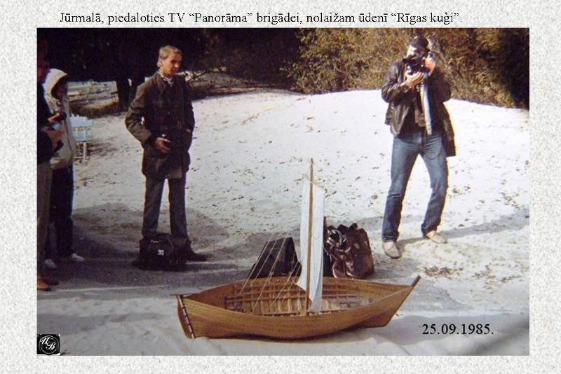 A. E. Zalstera komandas veidotais Rīgas kuģa modelis 1:10 1985.gadā. Atrodas Rīgas vēstures un kuģniecības muzejā.